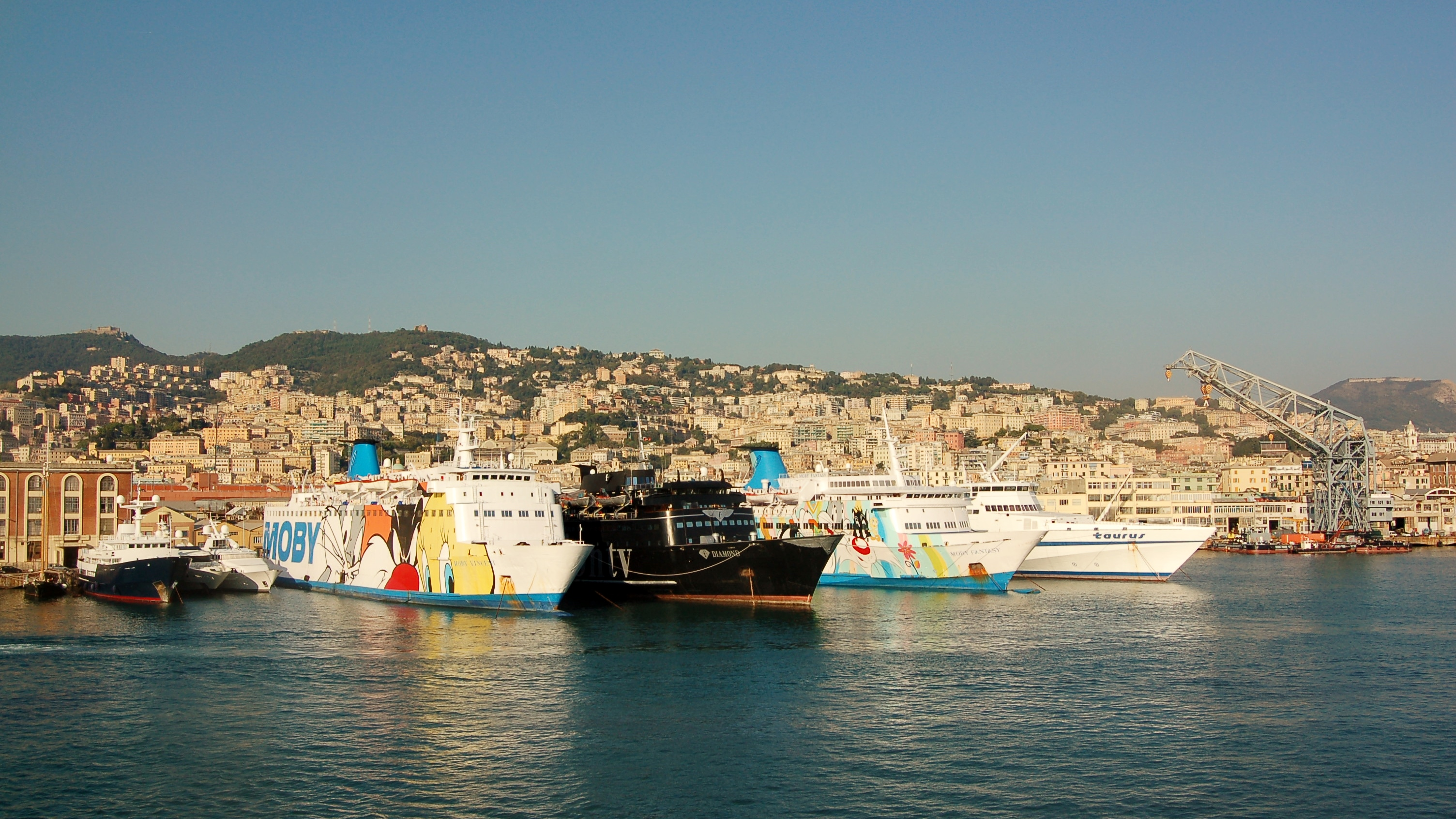 A line up of ferries berthed at the Port of Genoa, Italy. From left to right, they are Moby Vincent, F. Diamond, Moby Fantasy and Taurus.